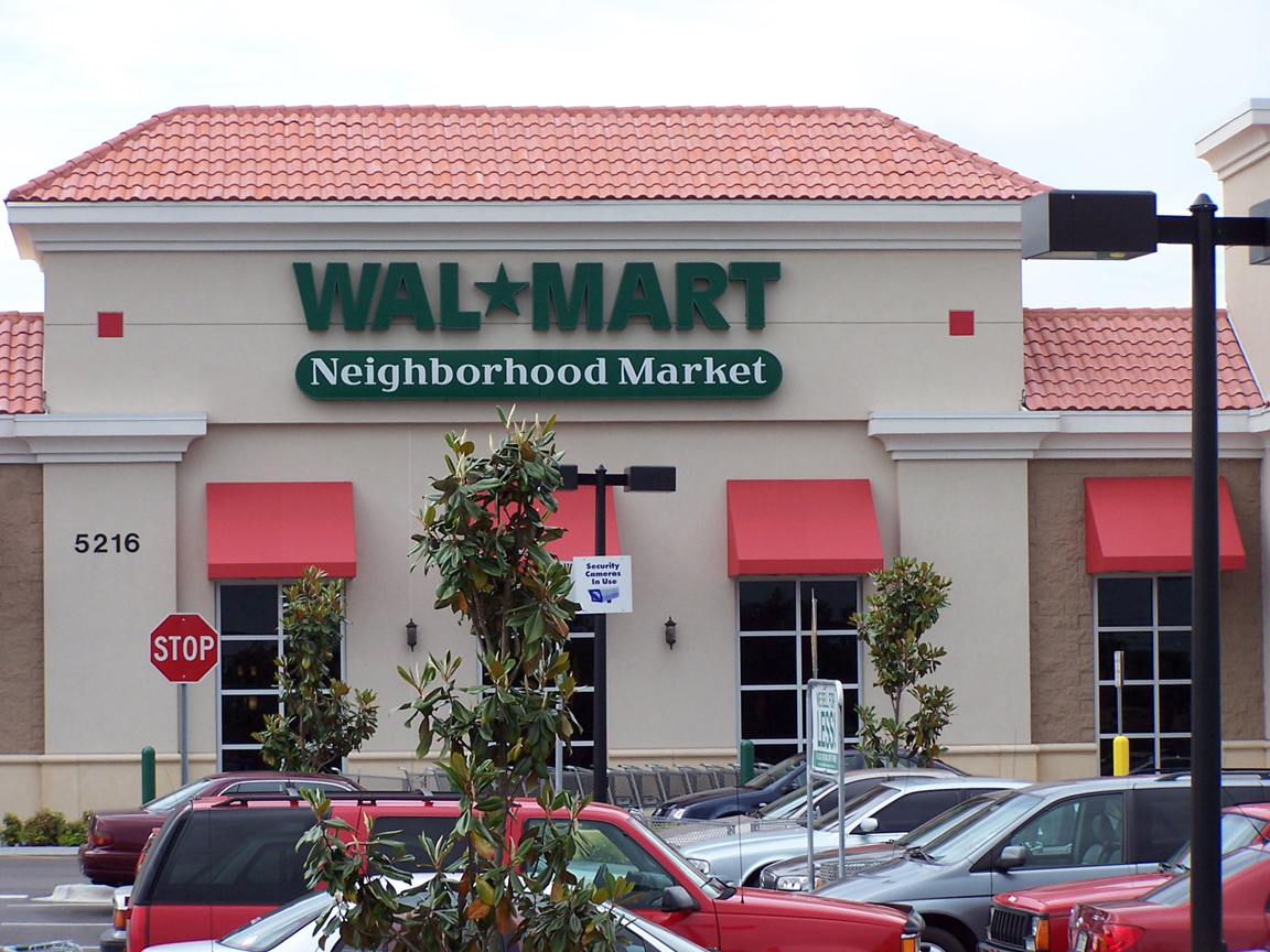 A Wal-Mart Neighborhood Market in Winter Springs, Florida.